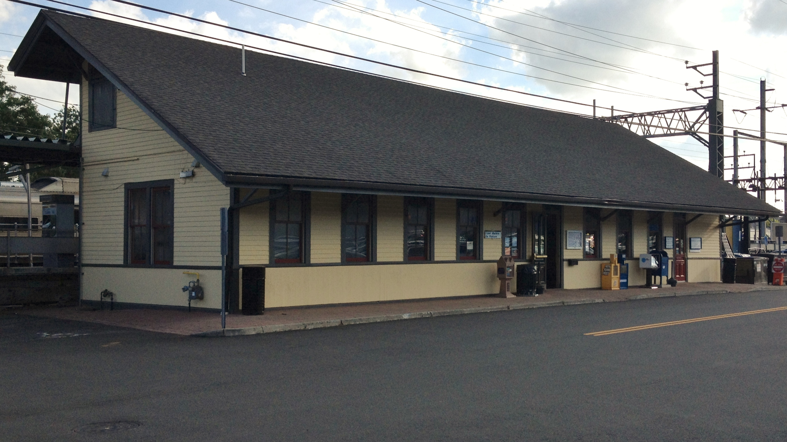 Main station house on the eastern platform. Southbound trains stop at this station. Located at the Fairfield, CT Train Station.